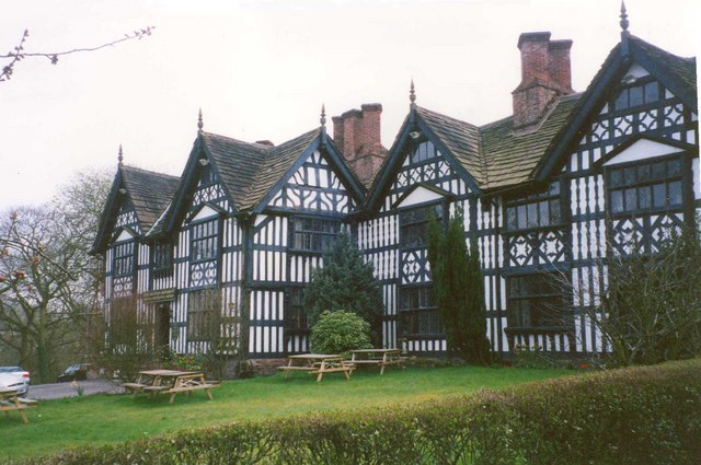 Photograph